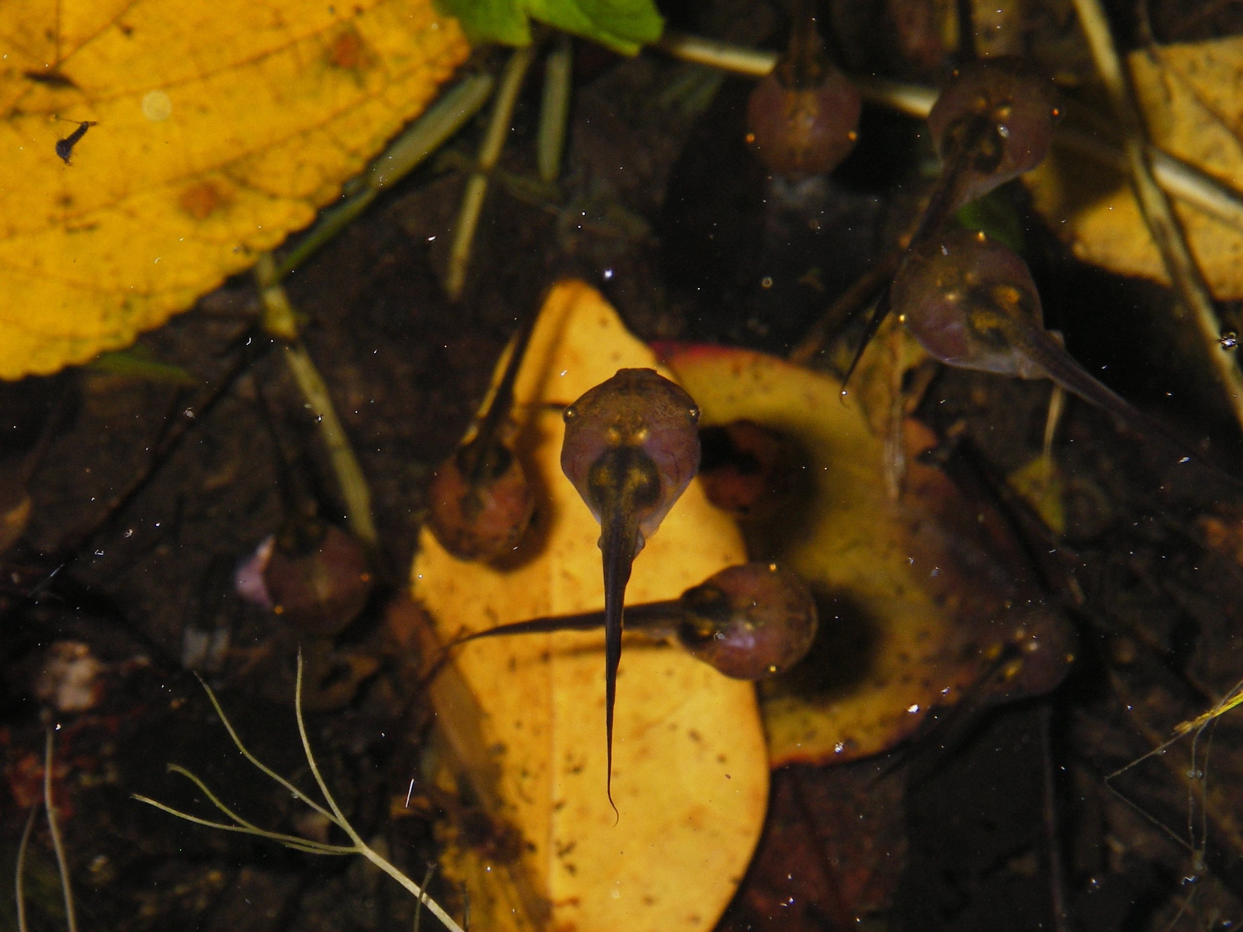 tadpoles of Paradoxophyla palmata (Microhylidae, Scaphiophryninae); from a ditch at the road between Ranomafana and Ambohitsara (Madagascar)